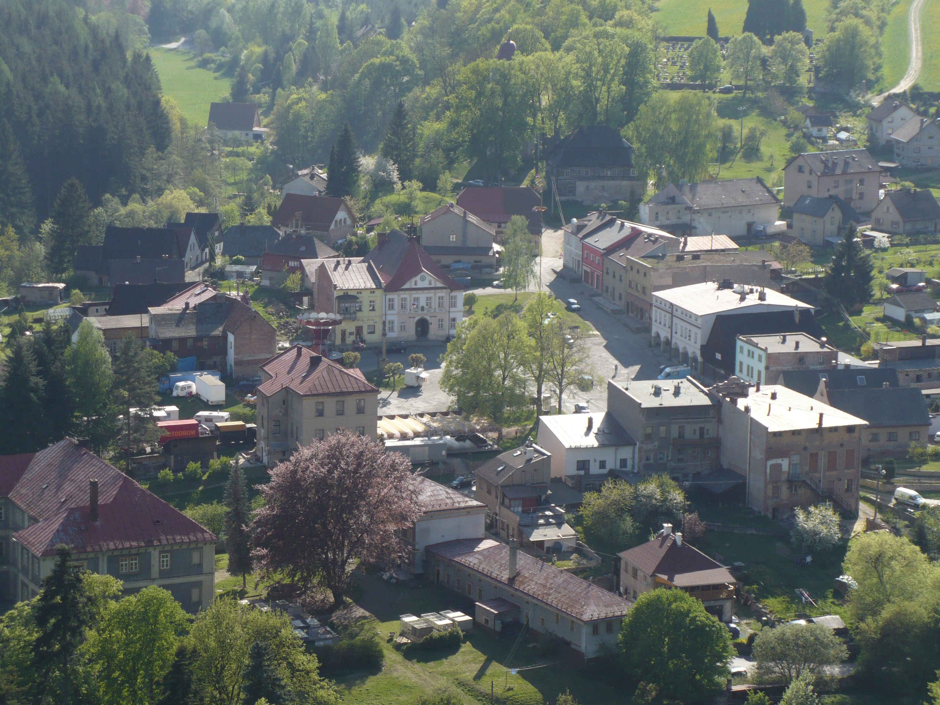 View of town center of Stárkov